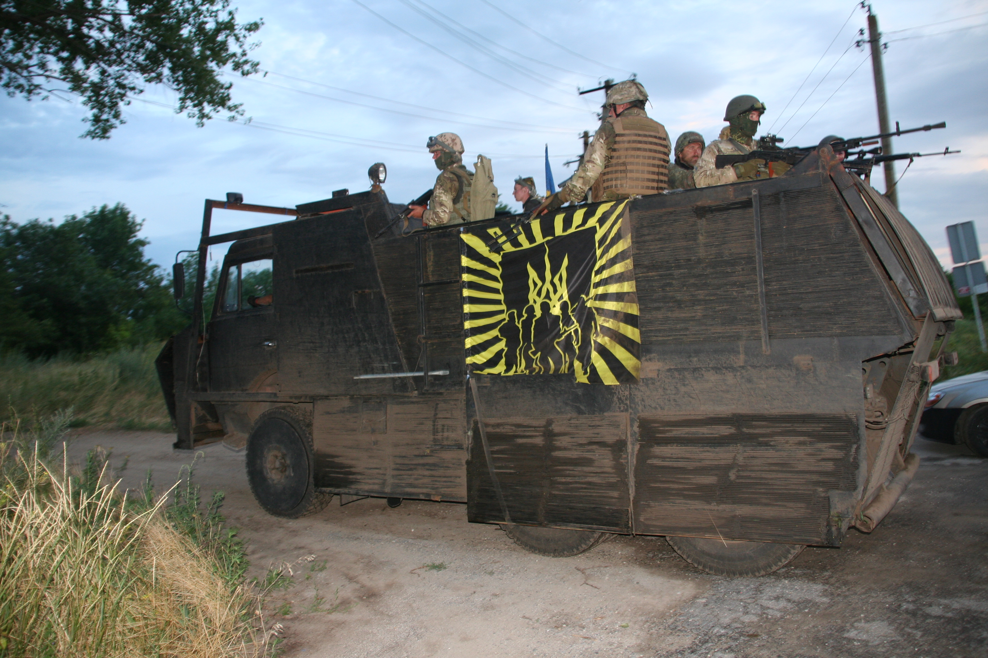 Soldiers of the Azov Battalion in a truck reinforced with steel plates. The flag on the side of the truck bears the emblem of the organisation Patriot of Ukraine.